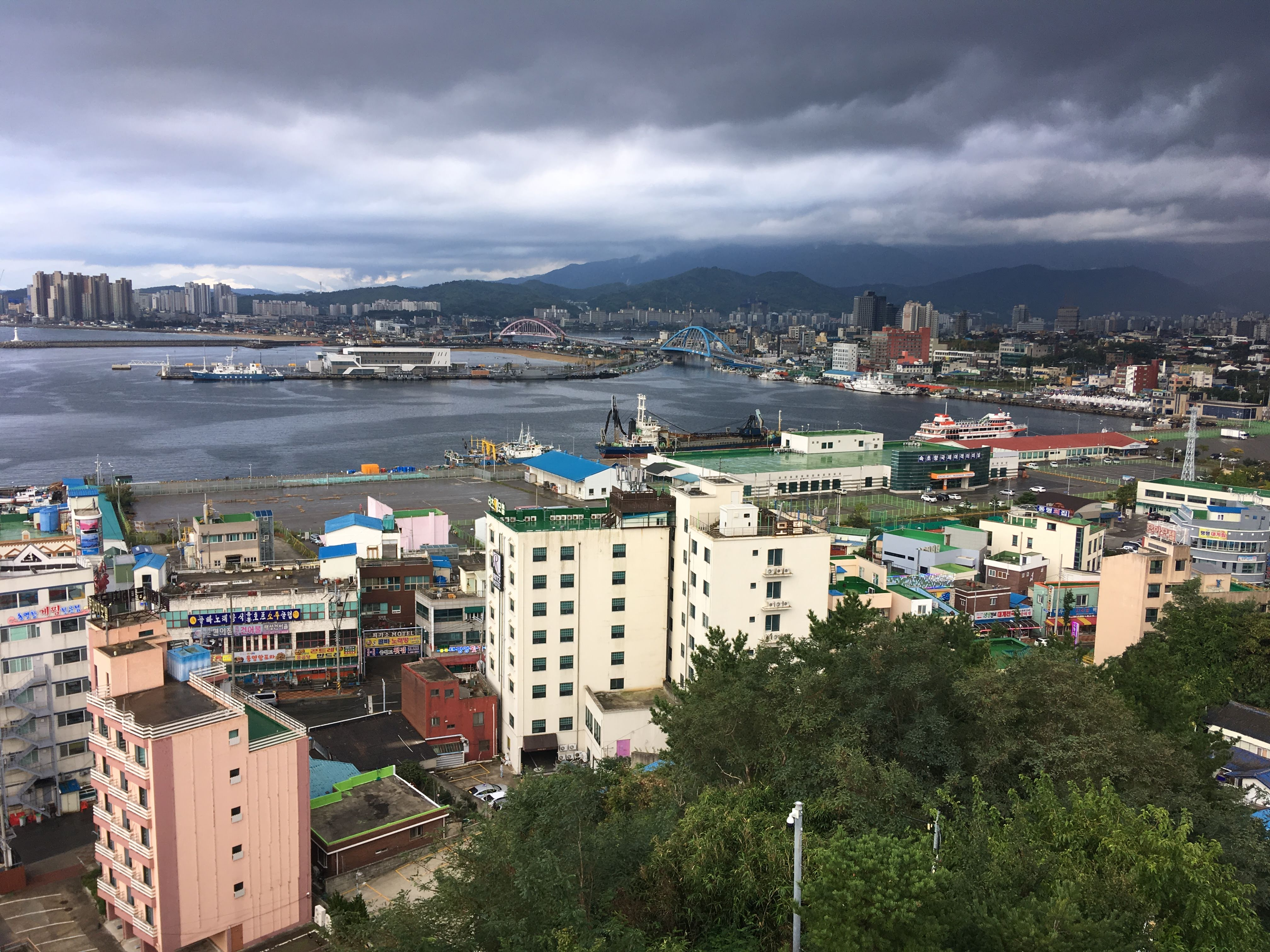 Sokcho from the Lighthouse Observatory